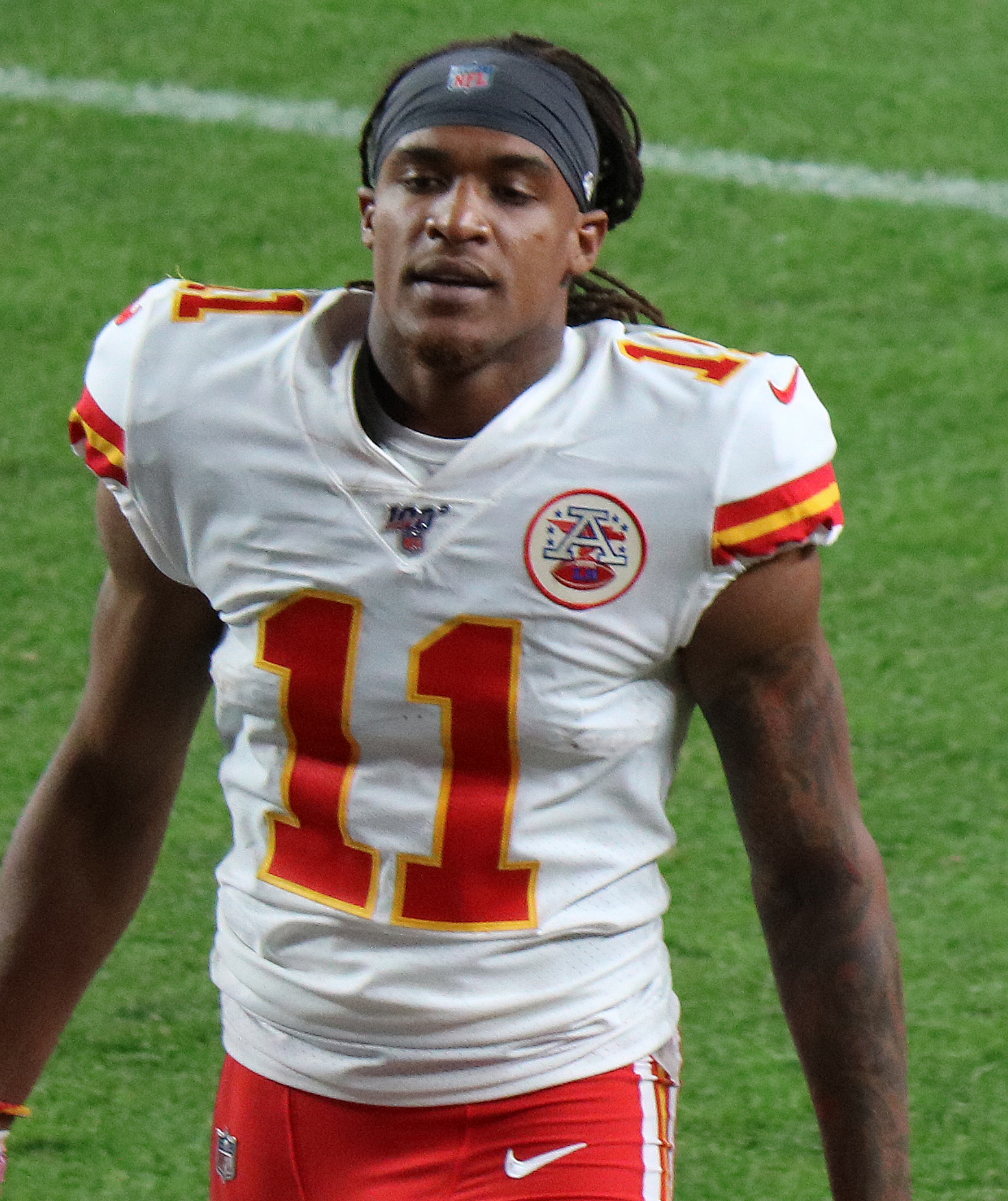 Demarcus Robinson, a National Football League player.